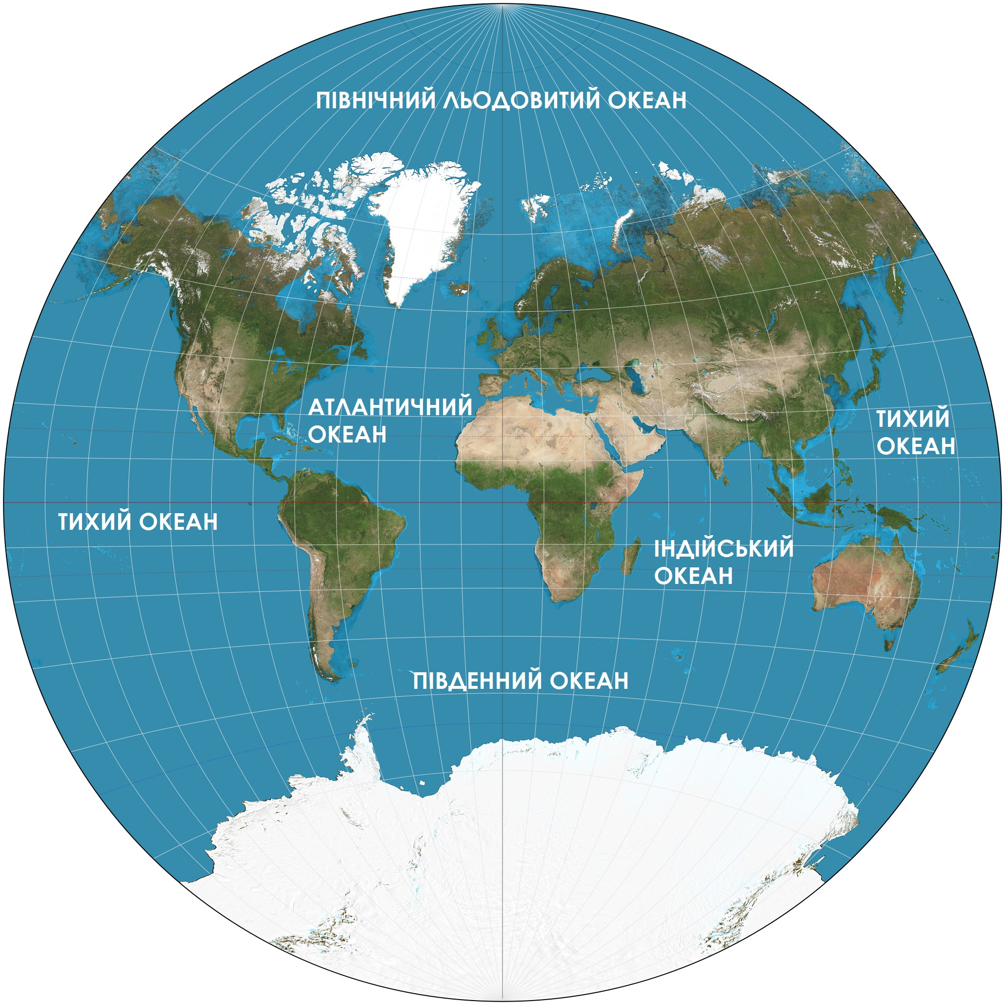 The world on Van der Grinten projection. 15° graticule. Imagery is a derivative of NASA’s Blue Marble summer month composite with oceans lightened to enhance legibility and contrast. Image created with the Geocart map projection software.